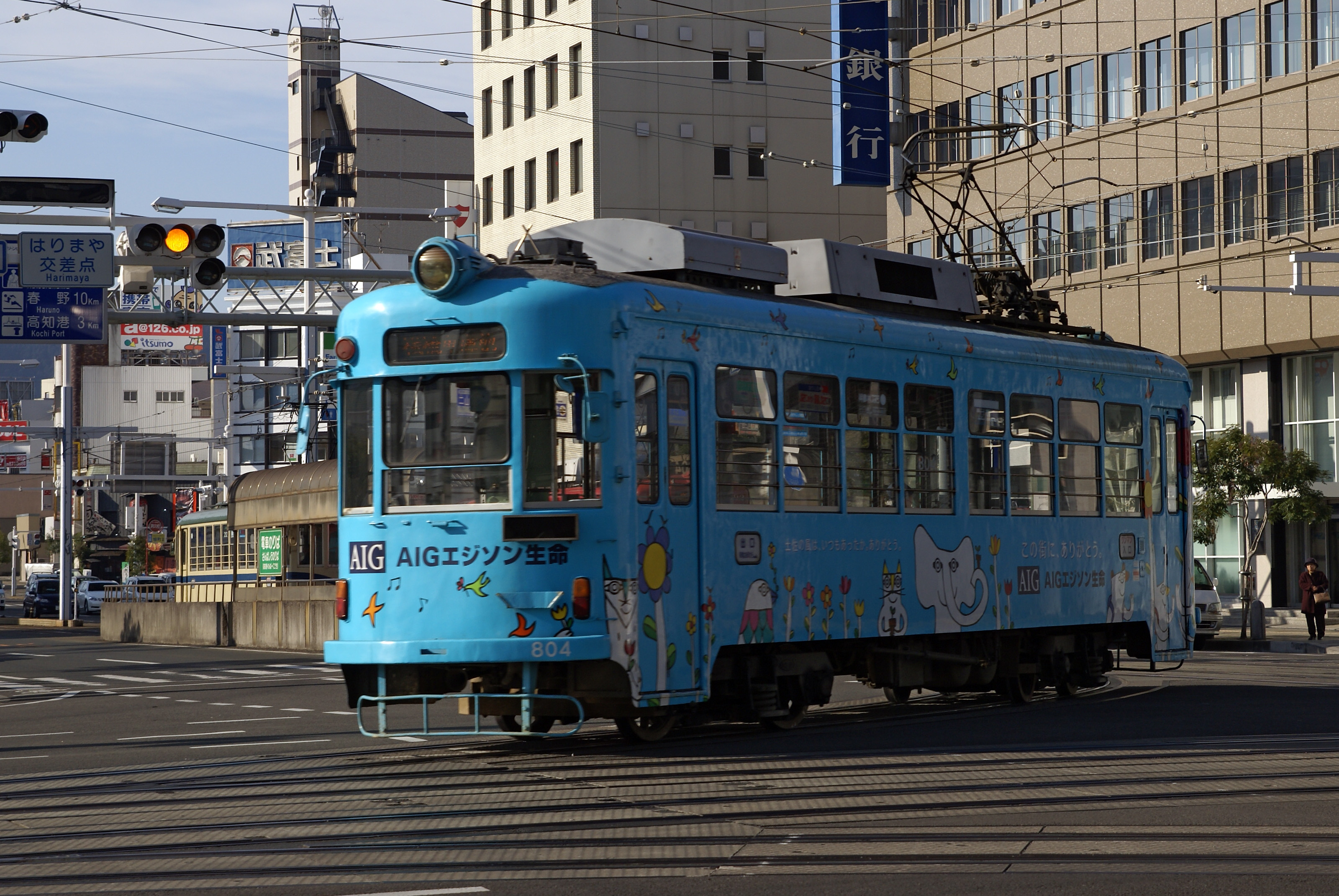 Harimayabashi Station in Kochi, Kochi prefecture, Japan